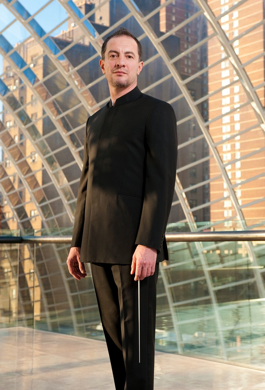 This is a portrait photograph of Rossen Milanov, a Bulgarian conductor.